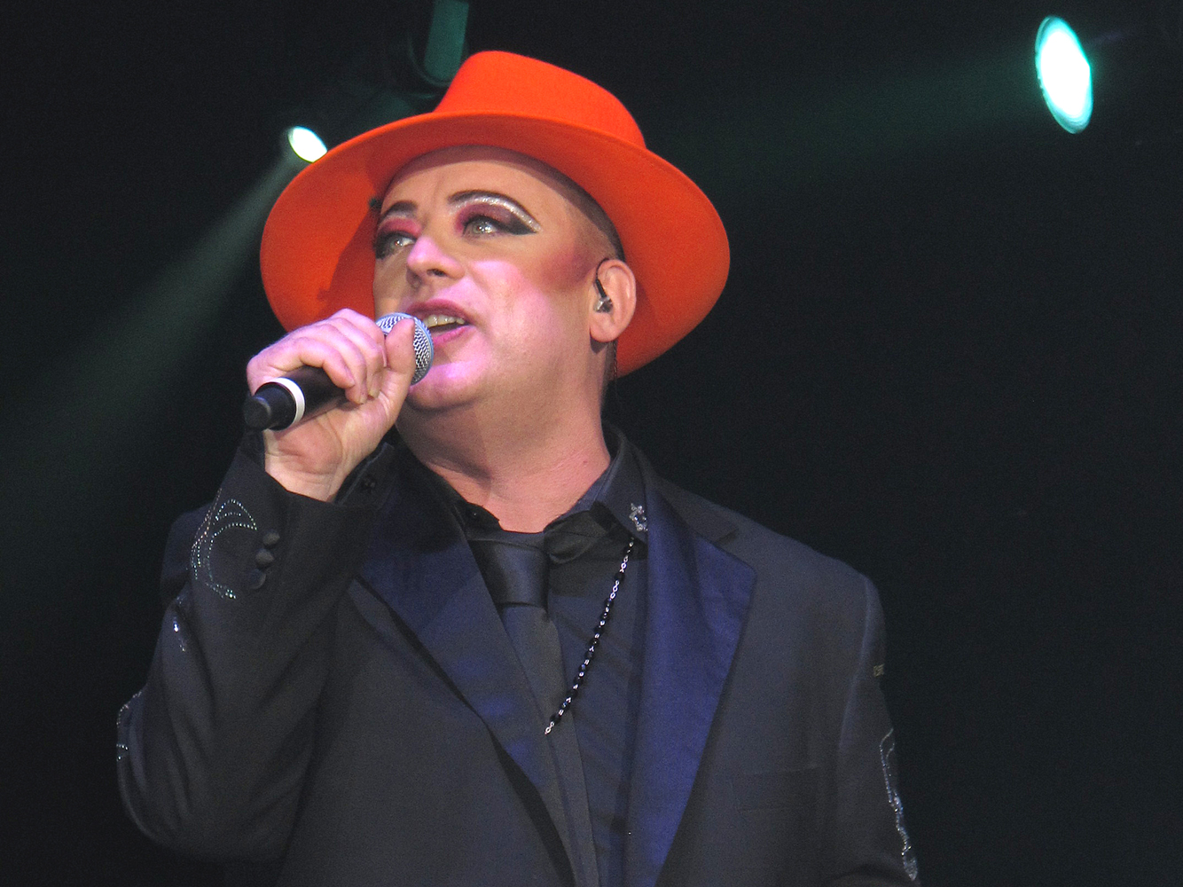 Boy George (Culture Club and Jesus Loves You)